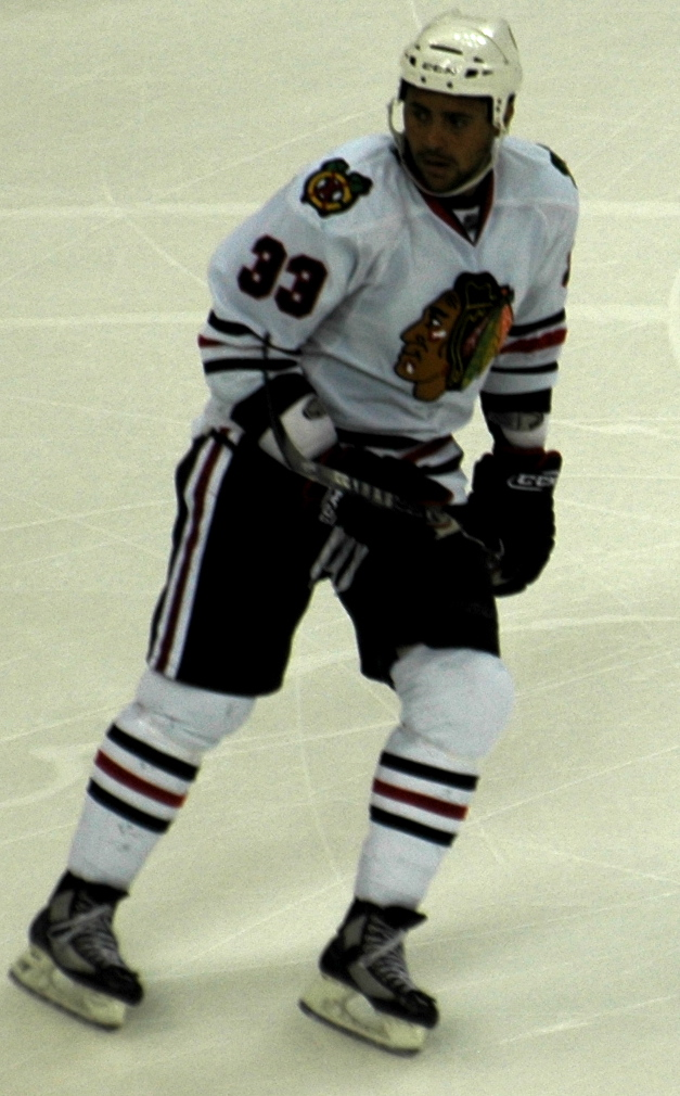 Dustin Byfuglien plays with Blackhawks in New Jersey